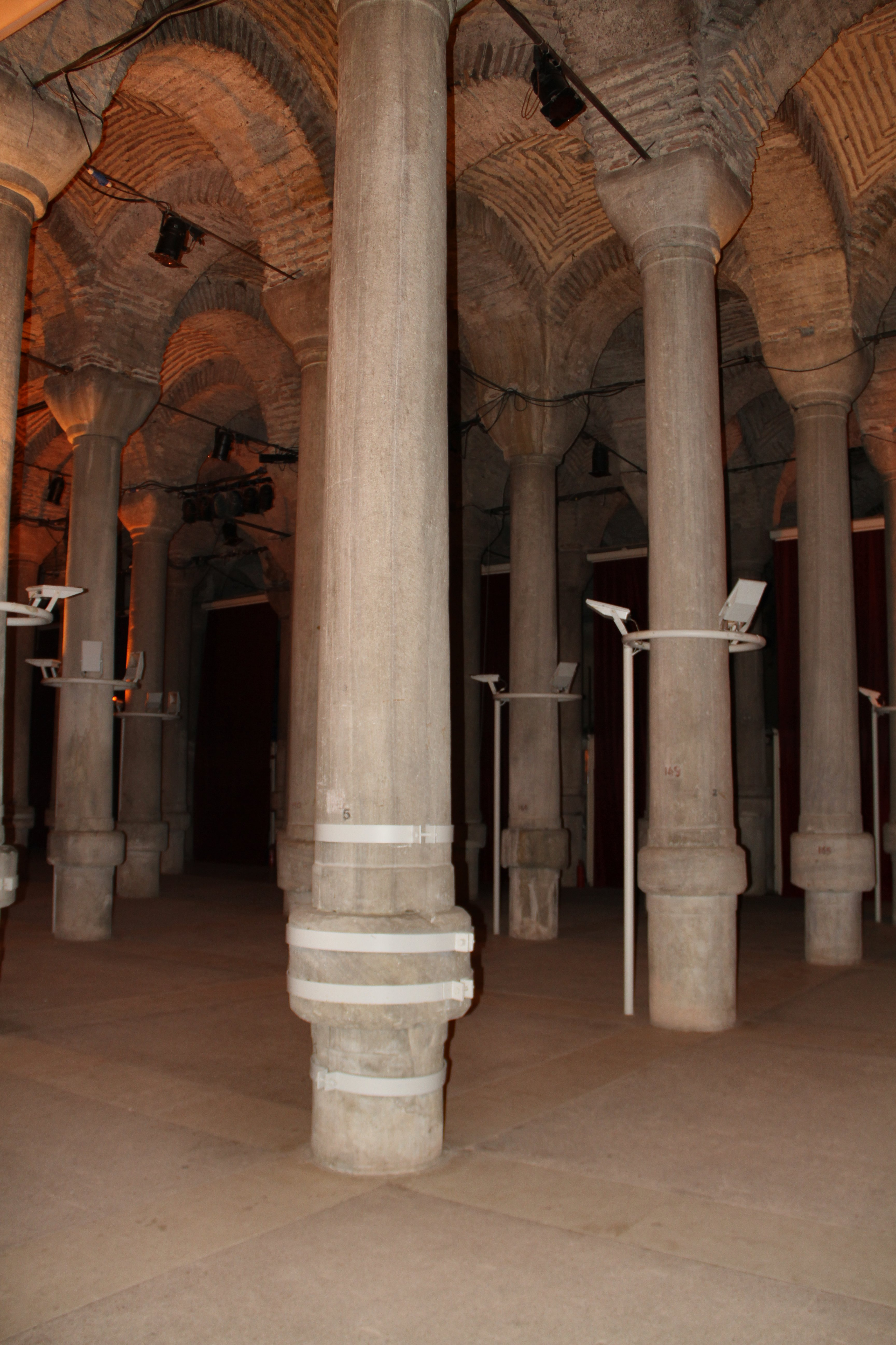 Columned hall of the Byzantian Philoxenos cisterns (Binbirdirek Sarnici), 4th century CE. See more at : Taken at Istanbul, May 2011